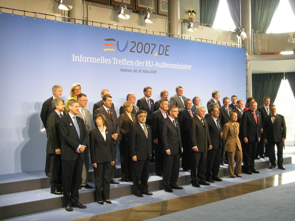 Meeting of the European Union foreign ministers (Gymnich) at the Park Hotel in Bremen, March 2007